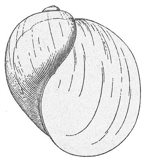 Myxas glutinosa - Freshwater pulmonate snail